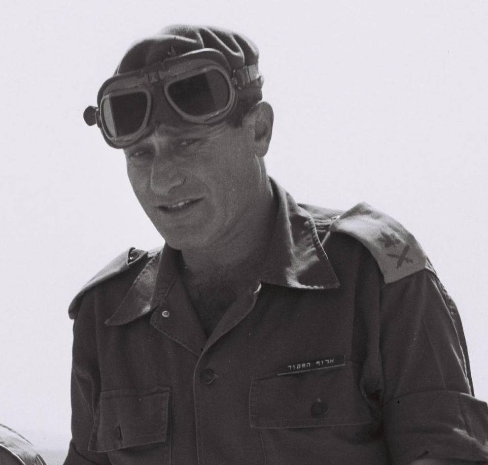 O.C. Southern Commander Aluf Gavish